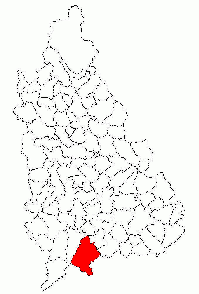 Locator map of Corbii Mari commune, Dâmbovița County, Romania